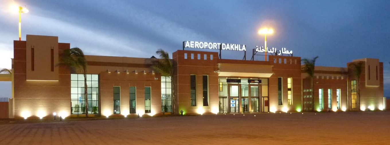 New Terminal of Dakhla airport